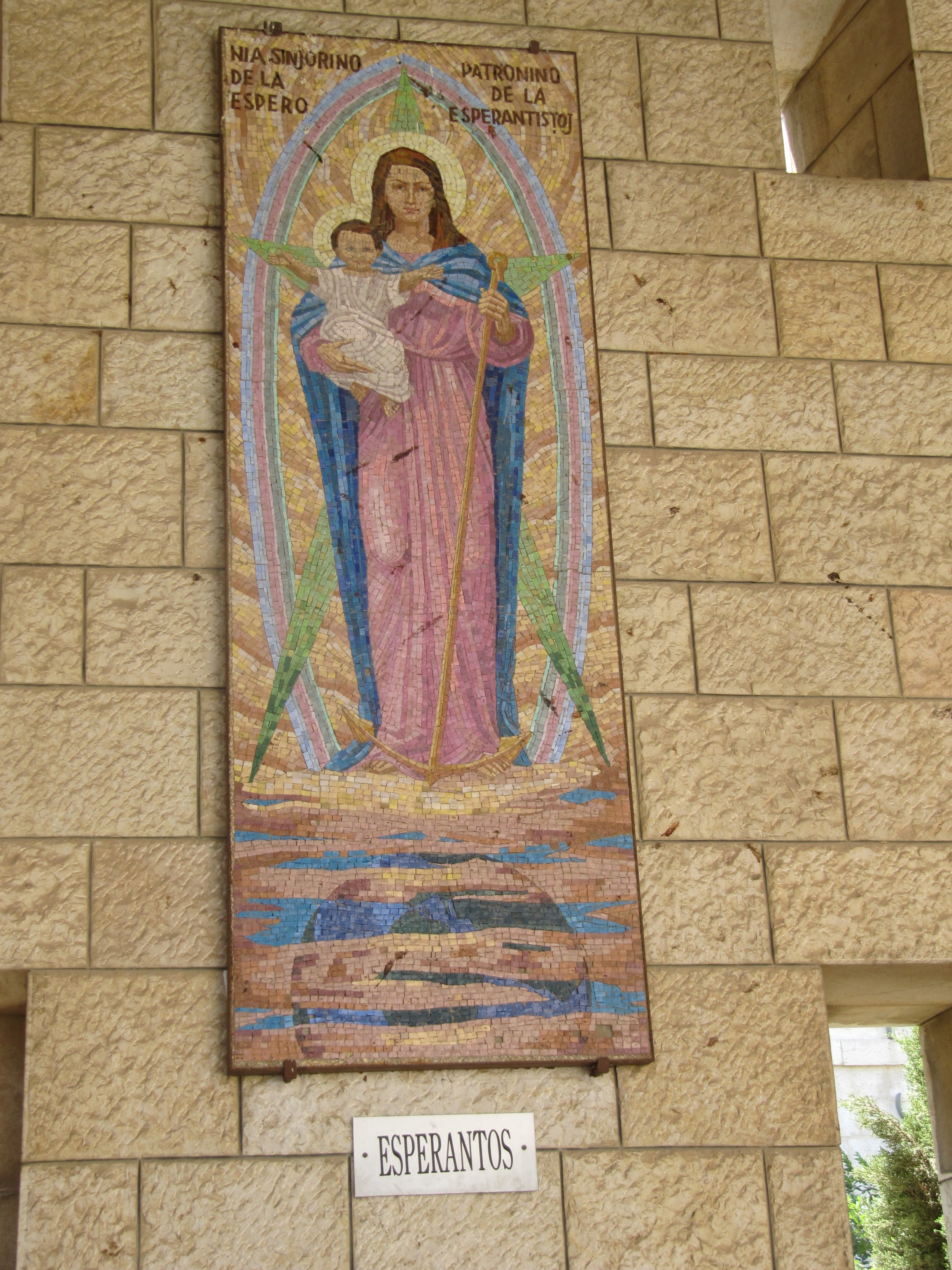 around the Basilica of the Annunciation en Nazareth is a wall where are presented dozens of icons of the Virgin Mary, offered by countries all around the world. Esperantists contributed with a mosaic and the writing:"Our Lady of Hope - Mother of the Esperantistsj". However under the icon, la "land" name is inscribed "Esperantos" instead of "Esperanto".